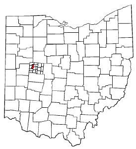 Adapted from Wikipedia's OH county maps. Created by SwissCelt.